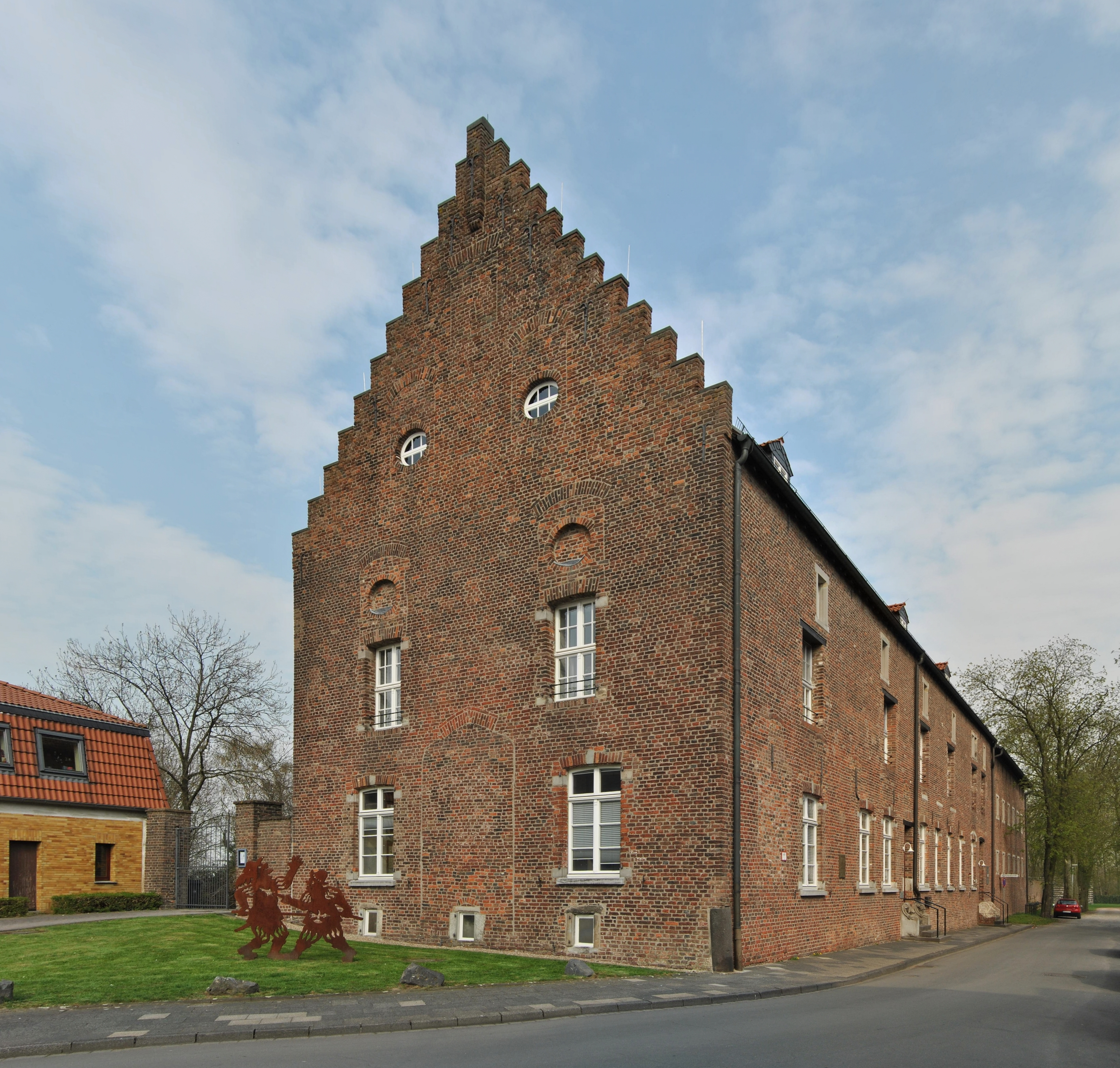 Rheinberg (North Rhine-Westphalia, Germany) – Alte Kellnerei, former part of the Rheinberg Castle This image shows a heritage building in Germany, located in the North Rhine-Westphalian city Rheinberg (no. 62). This photograph was taken with a Nikon D3000